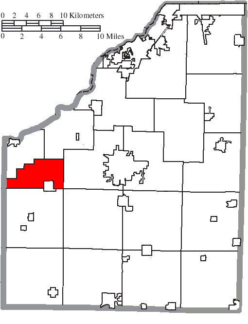 Map of the municipal and township boundaries of Wood County, Ohio, United States, as of the 2000 census, with the location of Weston Township highlighted. Township borders are shown only in unincorporated areas in order to differentiate incorporated and unincorporated areas more clearly.